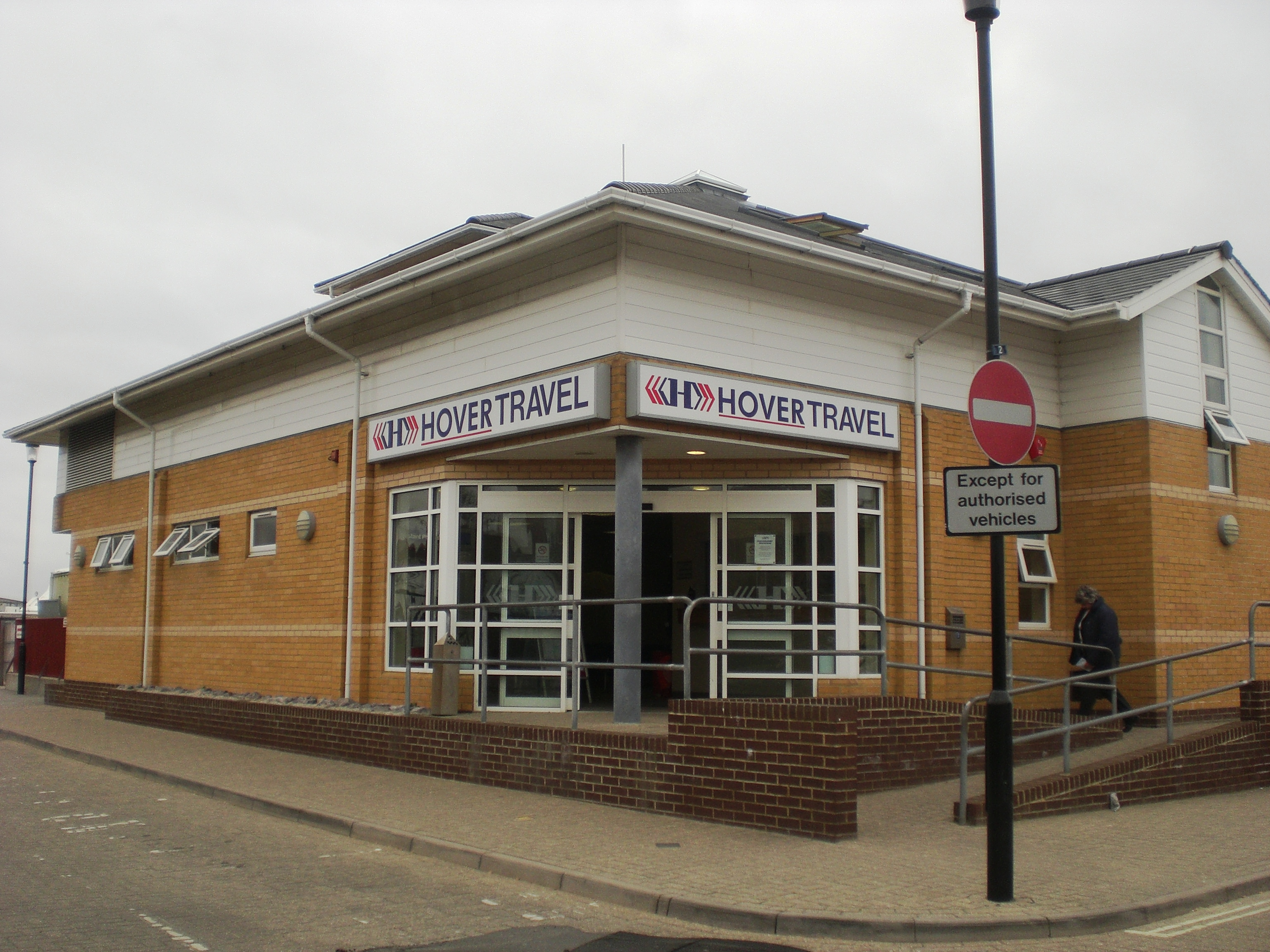 The Hovertravel terminal in Ryde on the Isle of Wight.